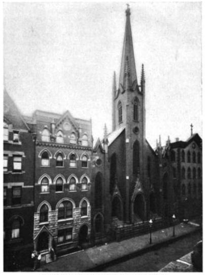 St. Nicholas, Manhattan, New York.